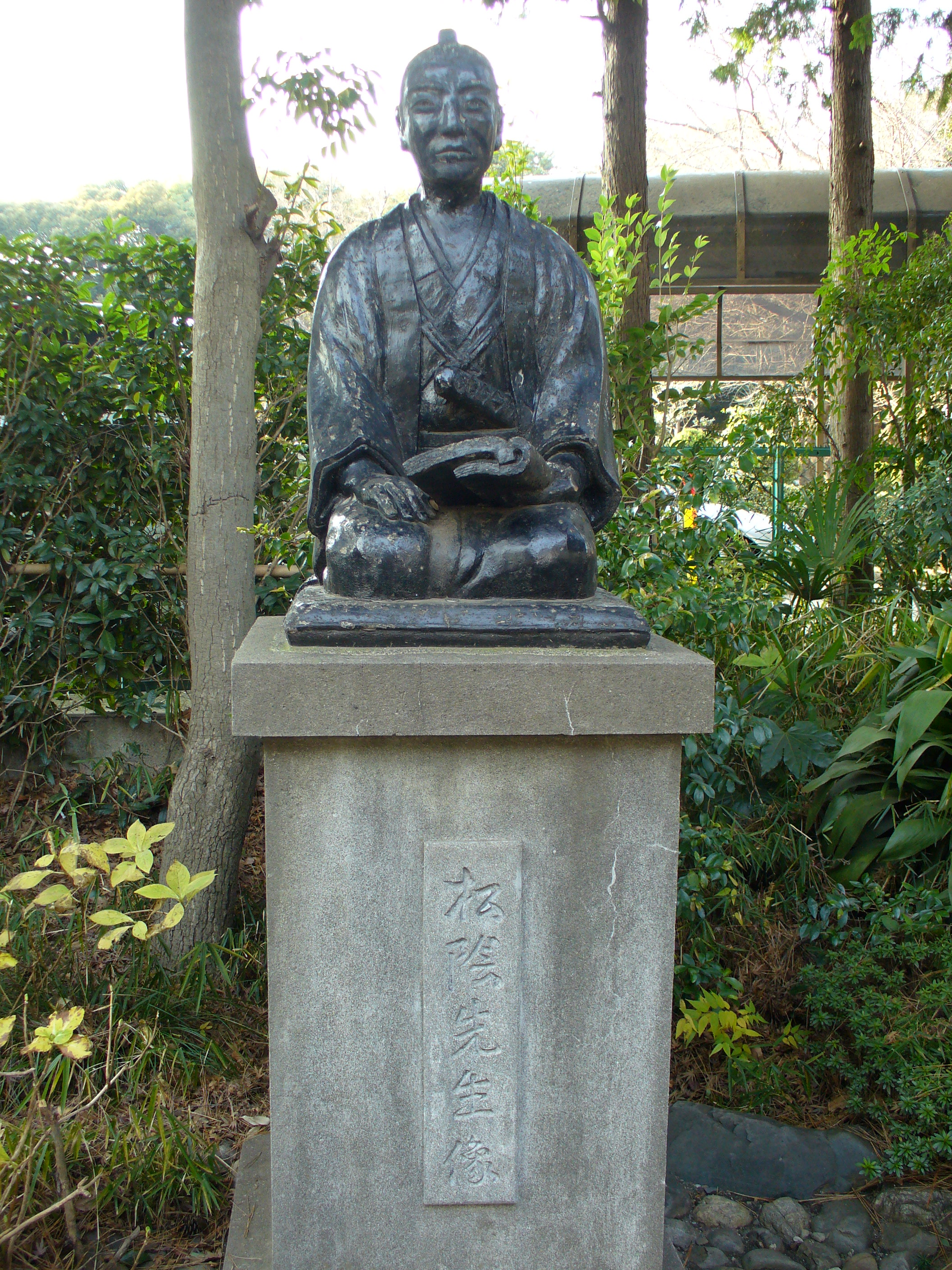 a statue of Shoin Yoshida at Shoin Shrine in Setagaya-ku Tokyo, Japan. Shoin Yoshida is a thinker at the end of Edo shogunate